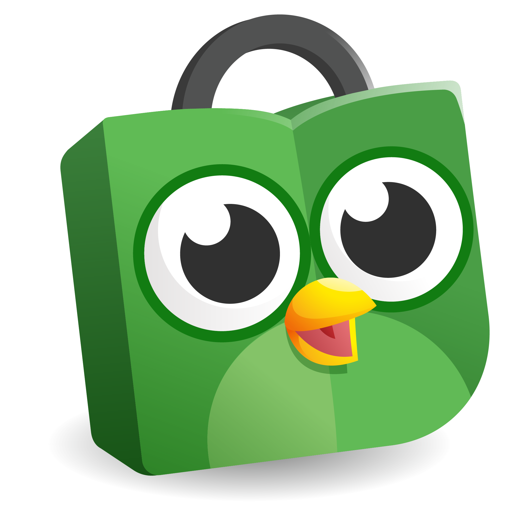 Tokopedia is an Indonesian technology company with the mission to democratize commerce through technology. Since its founding in 2009, Tokopedia has been a force that pioneers digital transformation in the country.